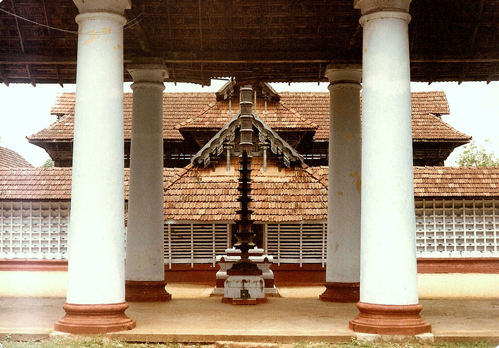 This photo was taken by me with a Yashica electron 35 camera. Summary This photo was taken by me with a Yashica electron 35 camera.